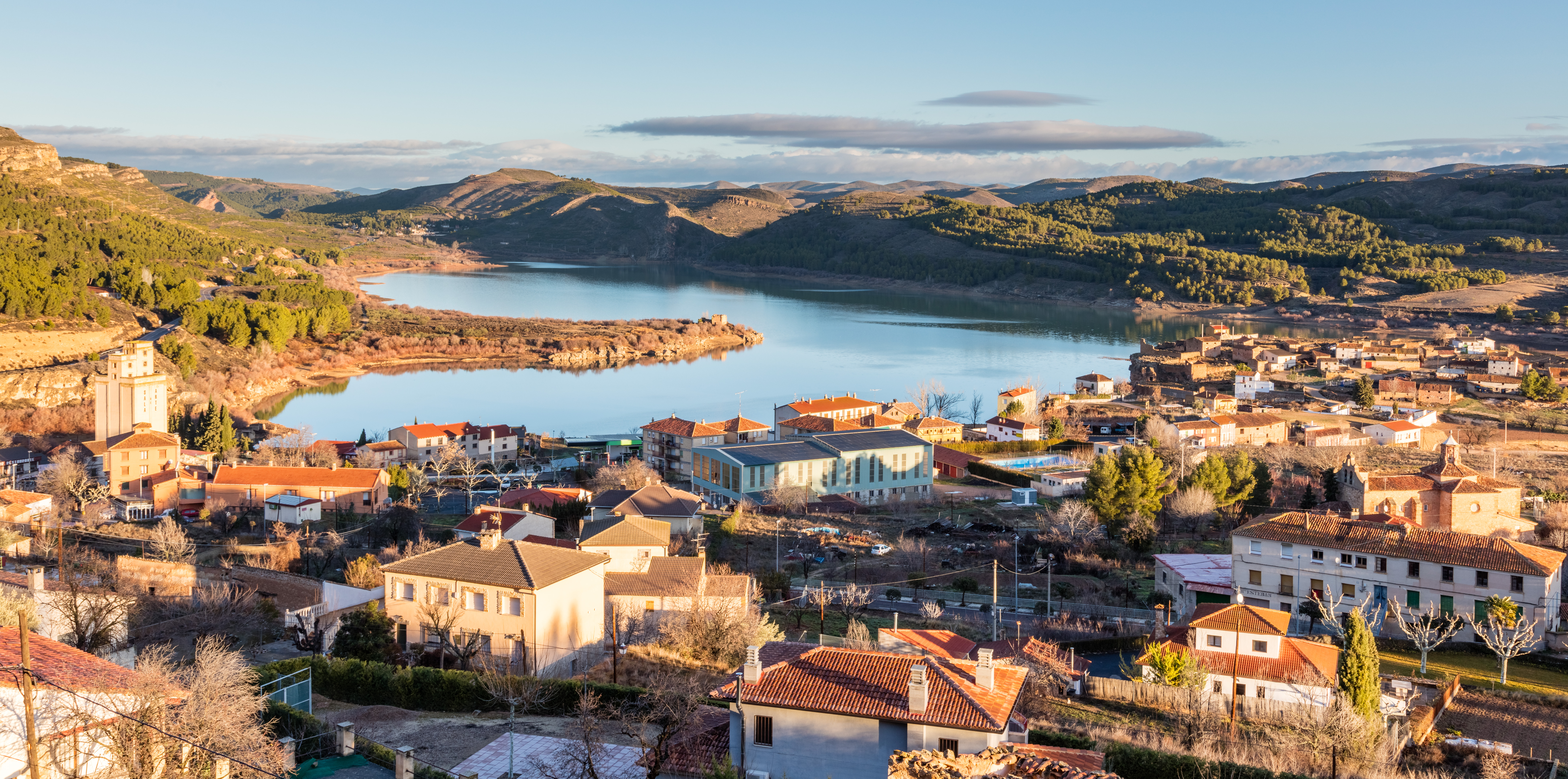 Nuévalos, Zaragoza, Spain